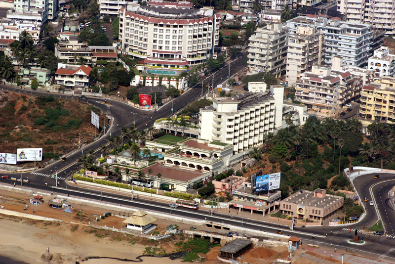 The city overlooking the Beach Road. 4.Visakhapatnam.